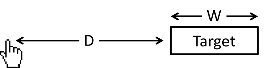 Demonstrating Fitts's law.